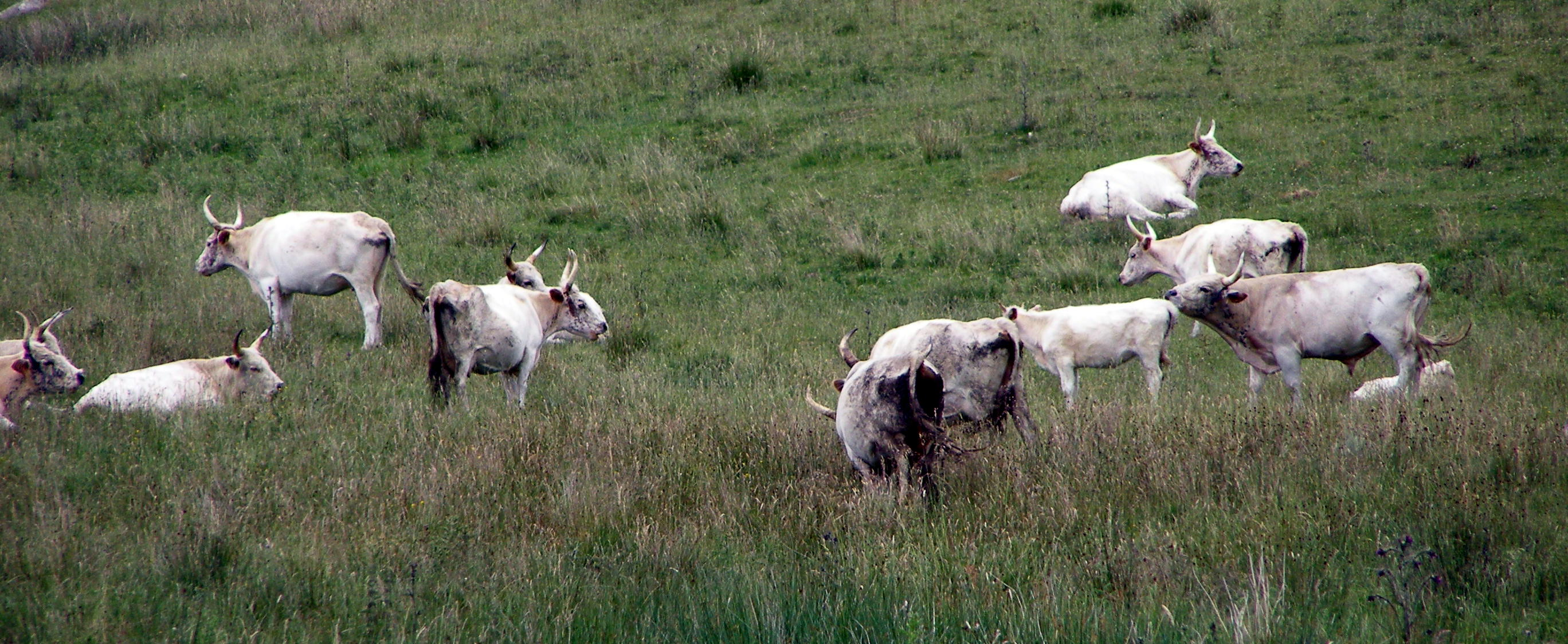 Chillingham Cattle herd grazing in meadow. This is the rare breed of ancient cattle thought to be descendants of the aurochs. Photographer: C. Michael Hogan